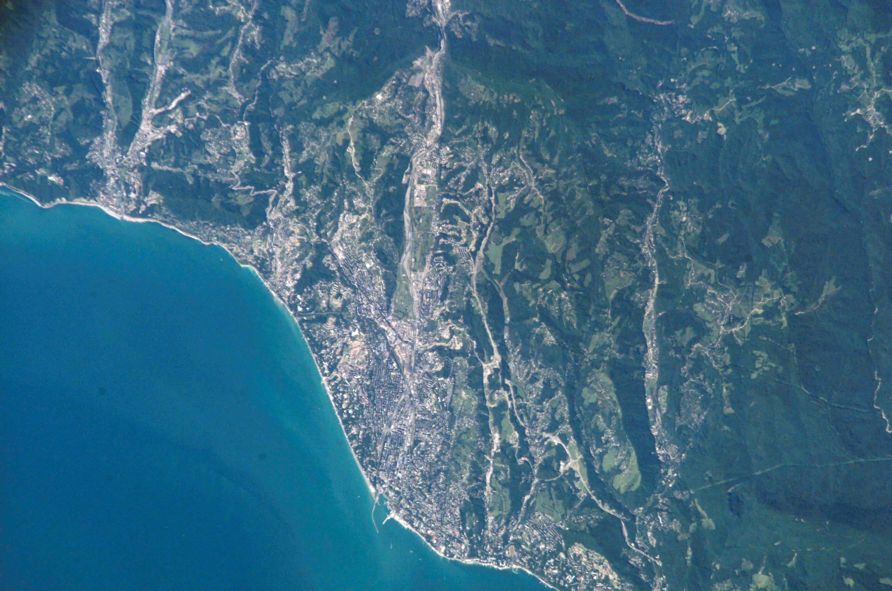 Satellite image of the Central district of Sochi